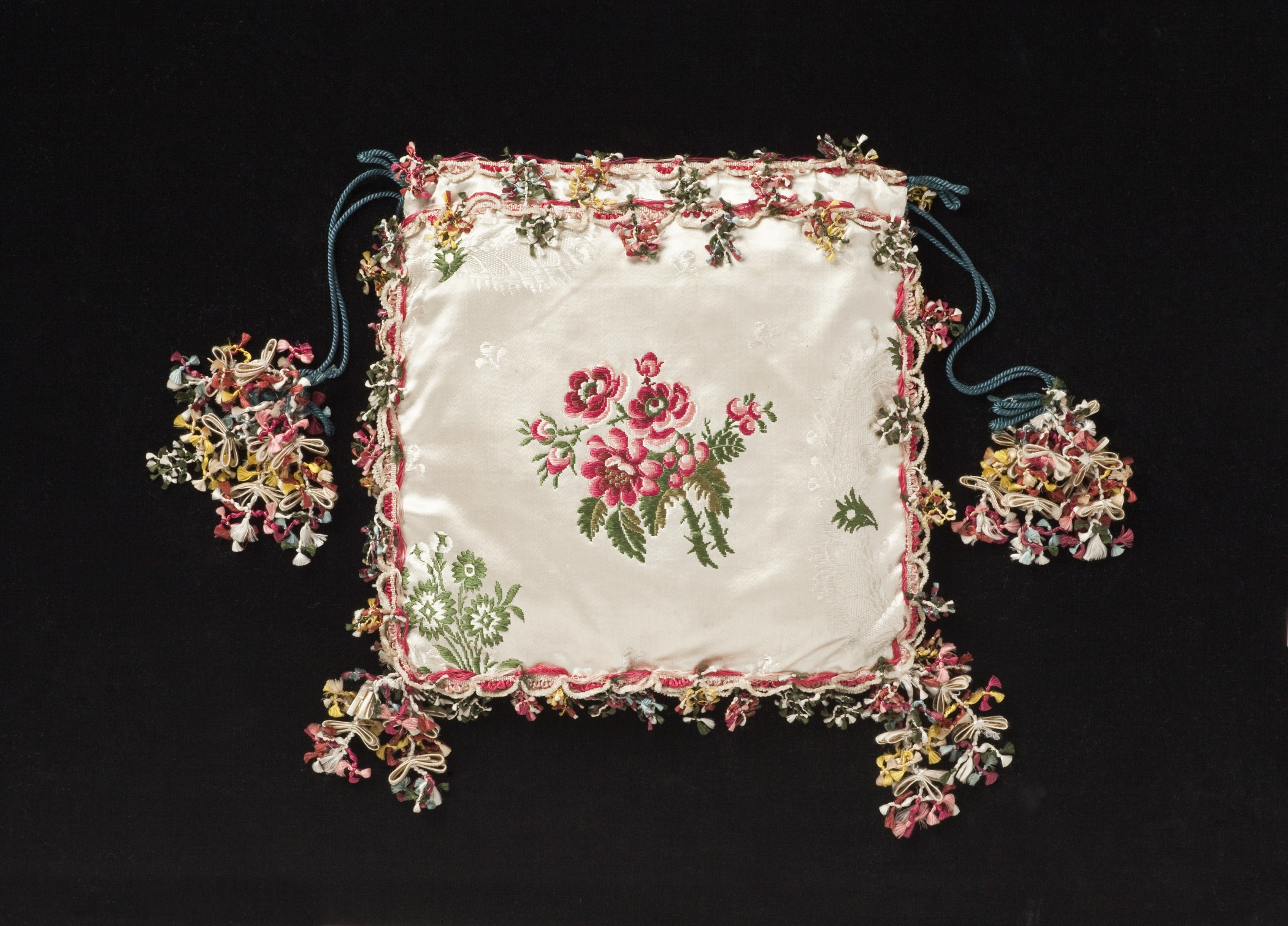 France, circa 1799 Costumes; Accessories Silk satin with weft-float and supplementary weft-float patterning, silk floss and chenille passementerie with silk fly fringe, and silk cord Gift of Mr. and Mrs. Robert D. Mathey (M.83.281.2) Costume and Textiles